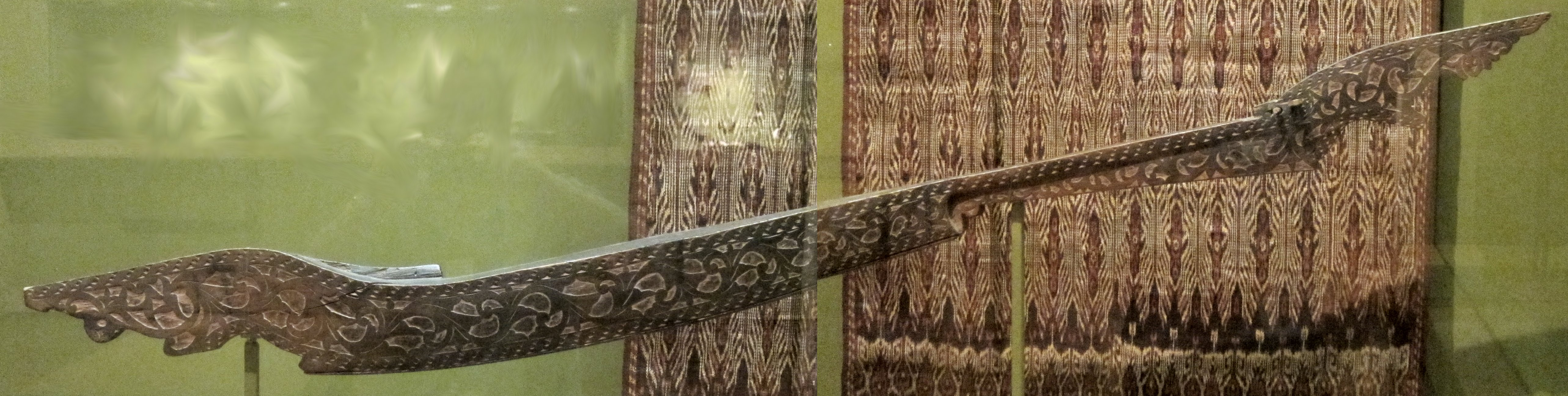 Lute (kutyapi), Mindanao, wood, Honolulu Museum of Art